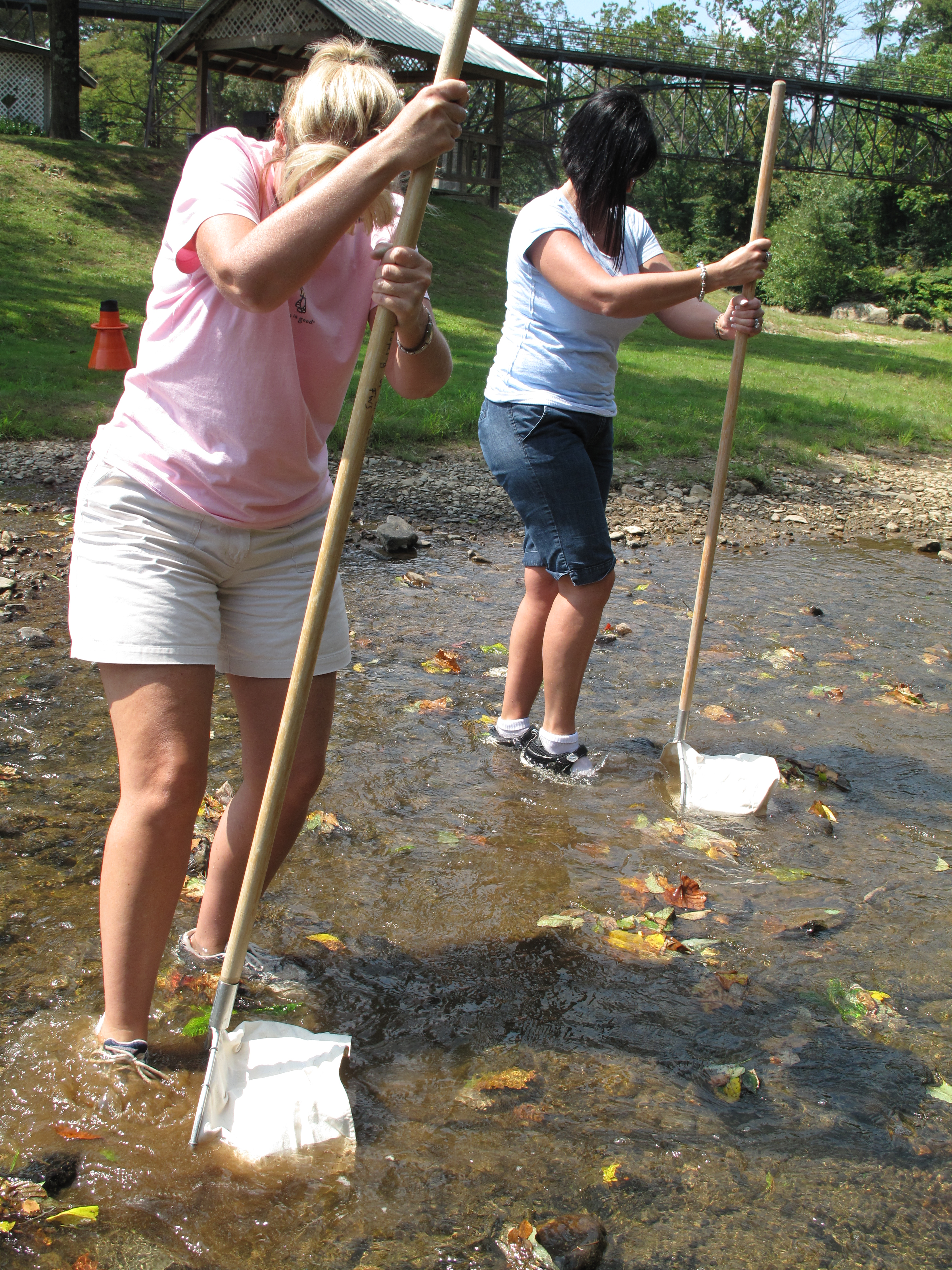 September 2010 It's Our Water workshop, North Toe River. Photo credit: Gary Peeples/USFWS